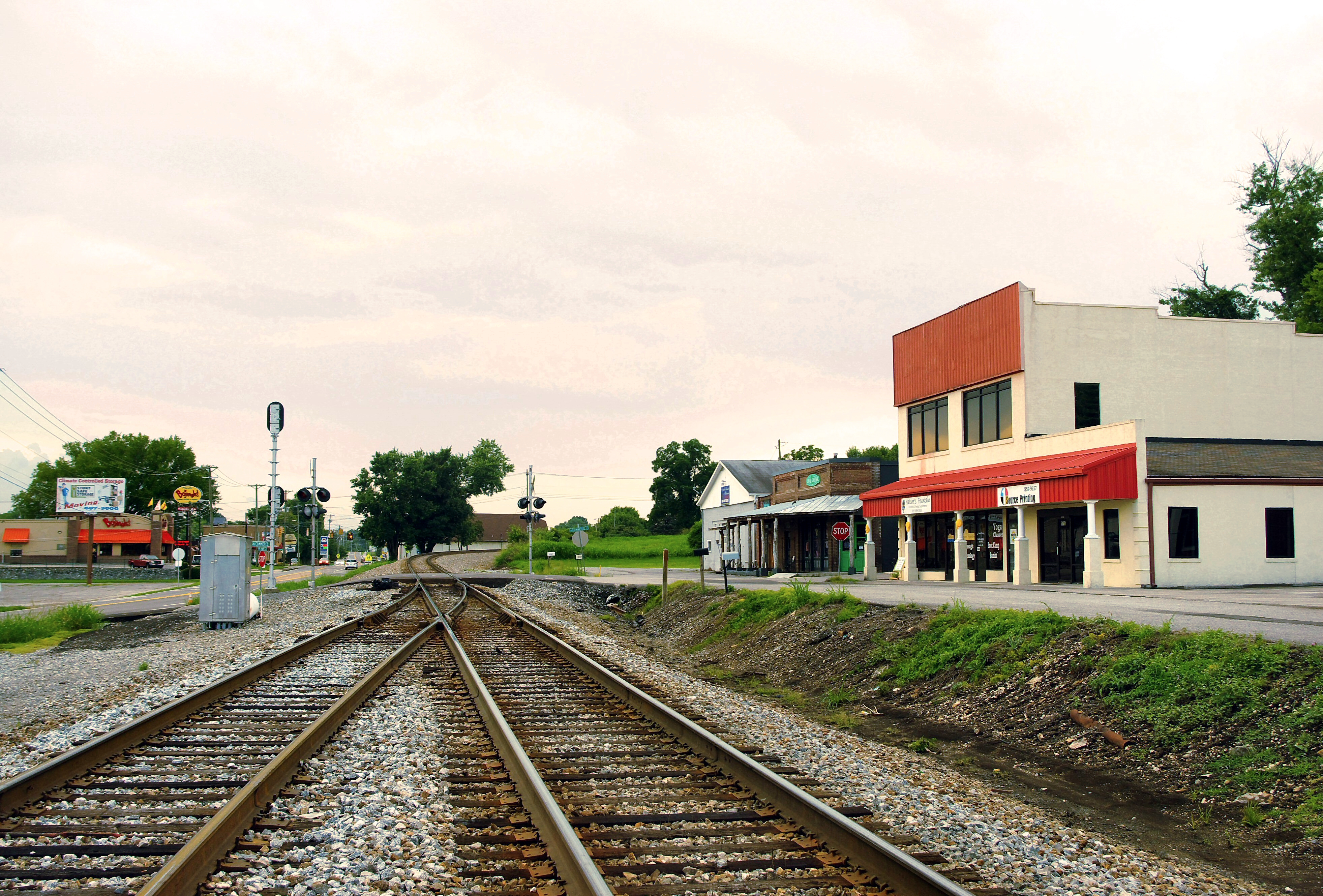 Norfolk Southern tracks along Depot Street in the Powell community of Knox County, Tennessee, United States.